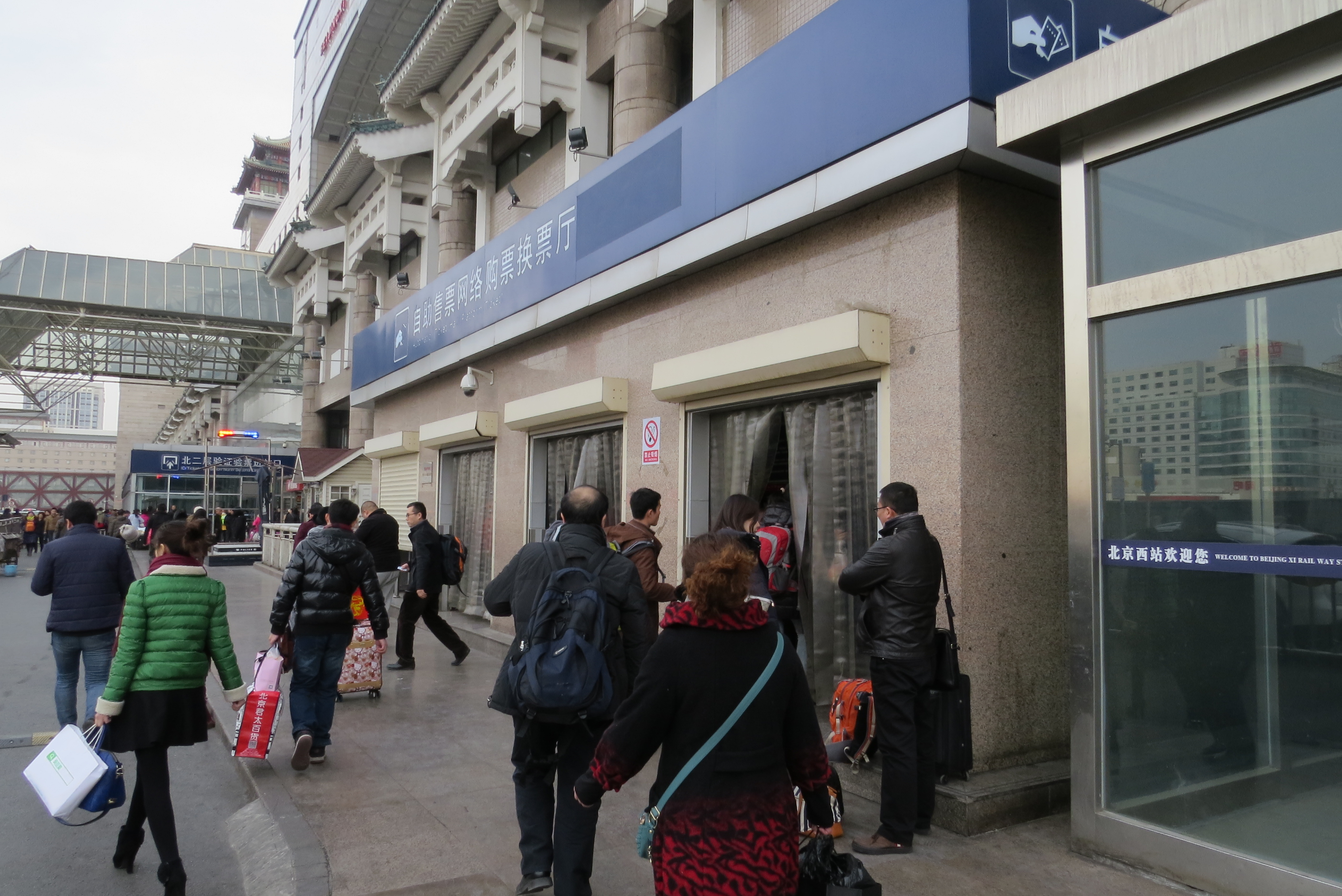 Just buy your tickets on your own!